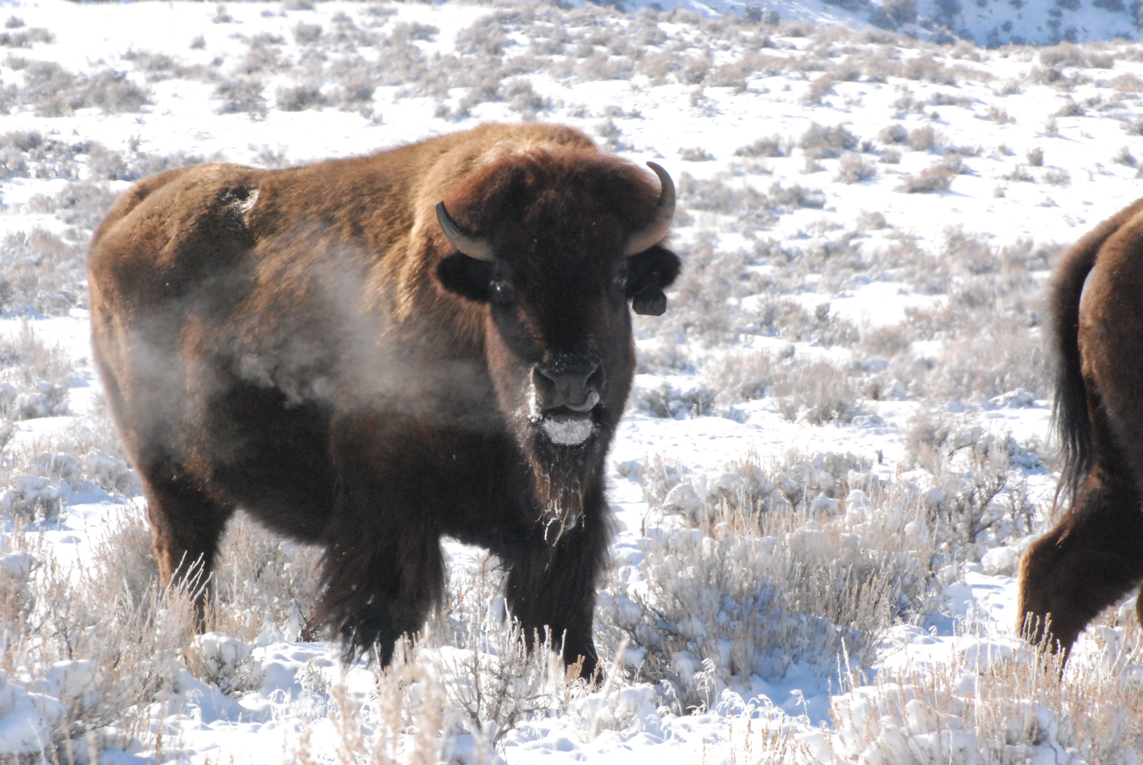 Buffalo grazing in Hot Springs State Park.